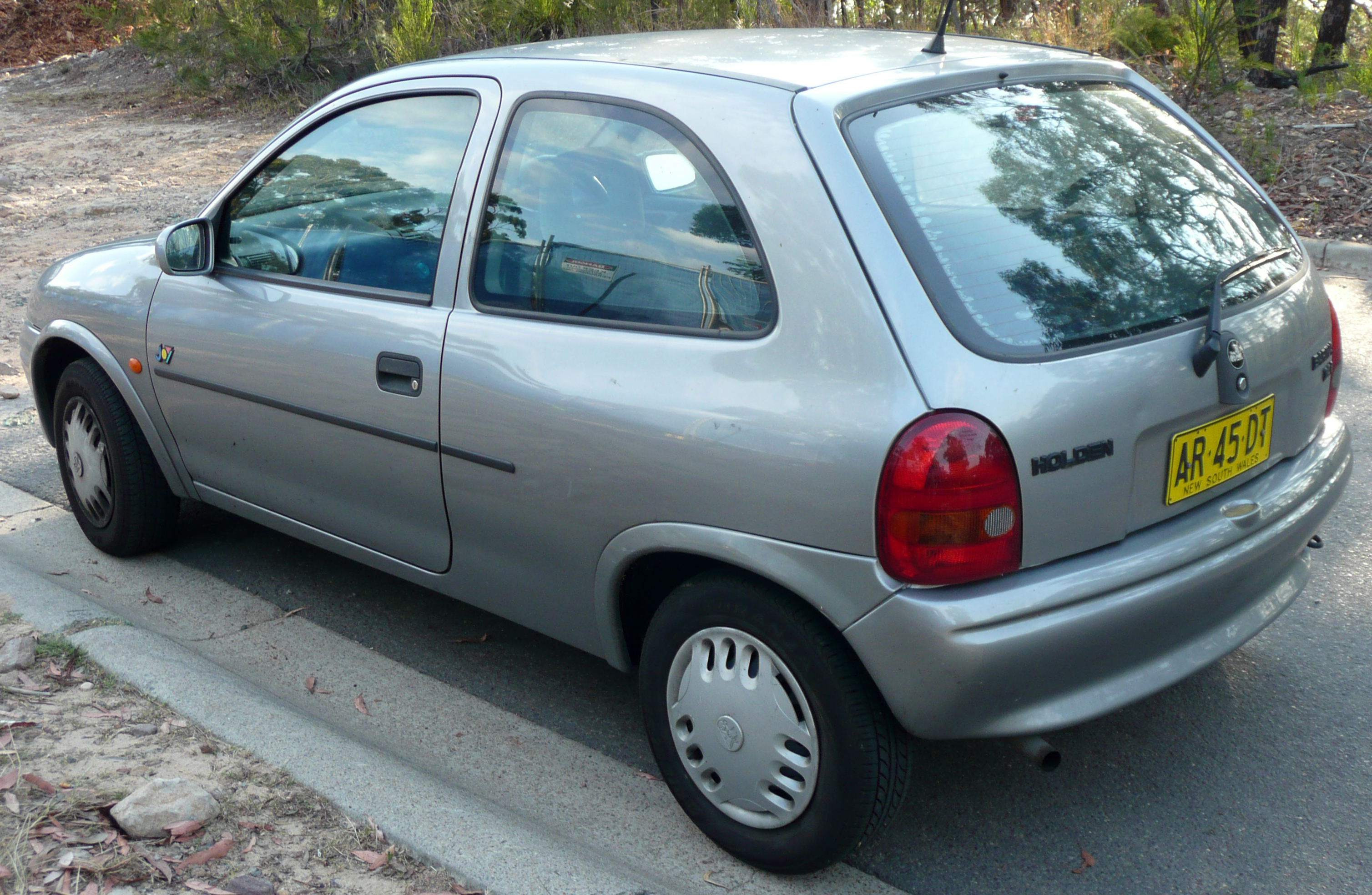 1994–1995 Holden Barina (SB) Joy 3-door hatchback. Photographed in New South Wales, Australia.